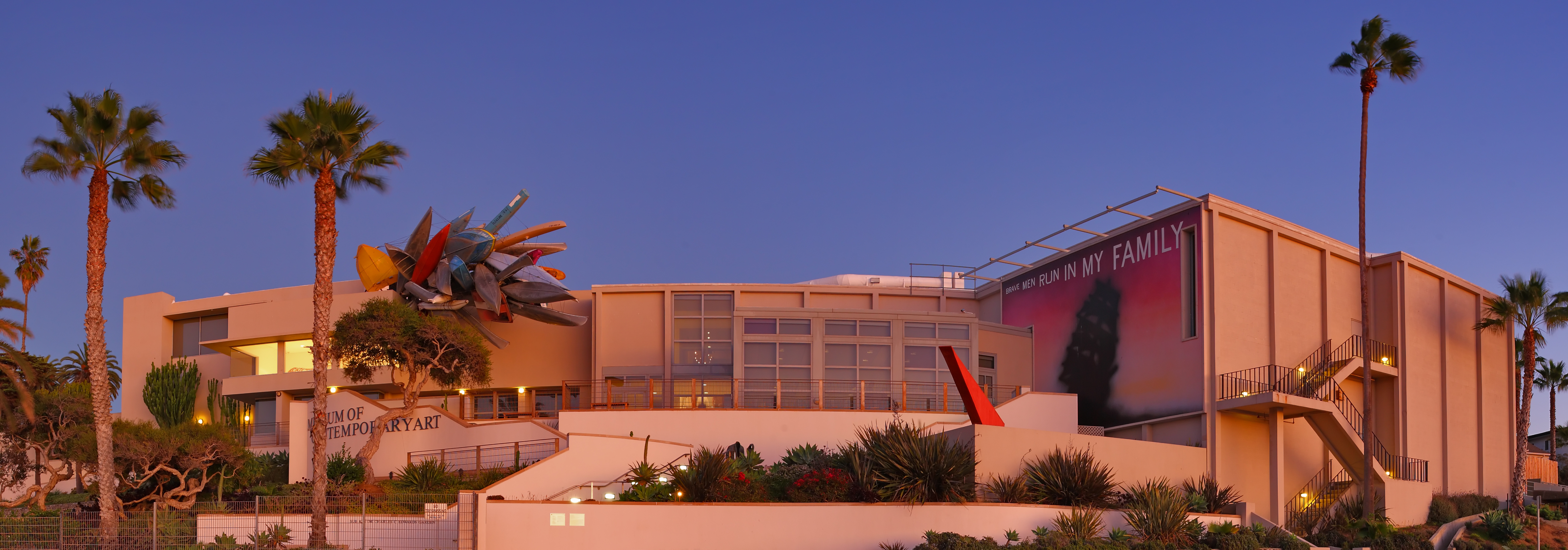 the La Jolla branch of the Museum of Contemporary Art San Diego in La Jolla, San Diego, California. The building was designed by architect Irving Gill and was originally the 1915 residence of philathropist Ellen Browning Scripps. The museum was founded in 1941. A 5 image stitch.